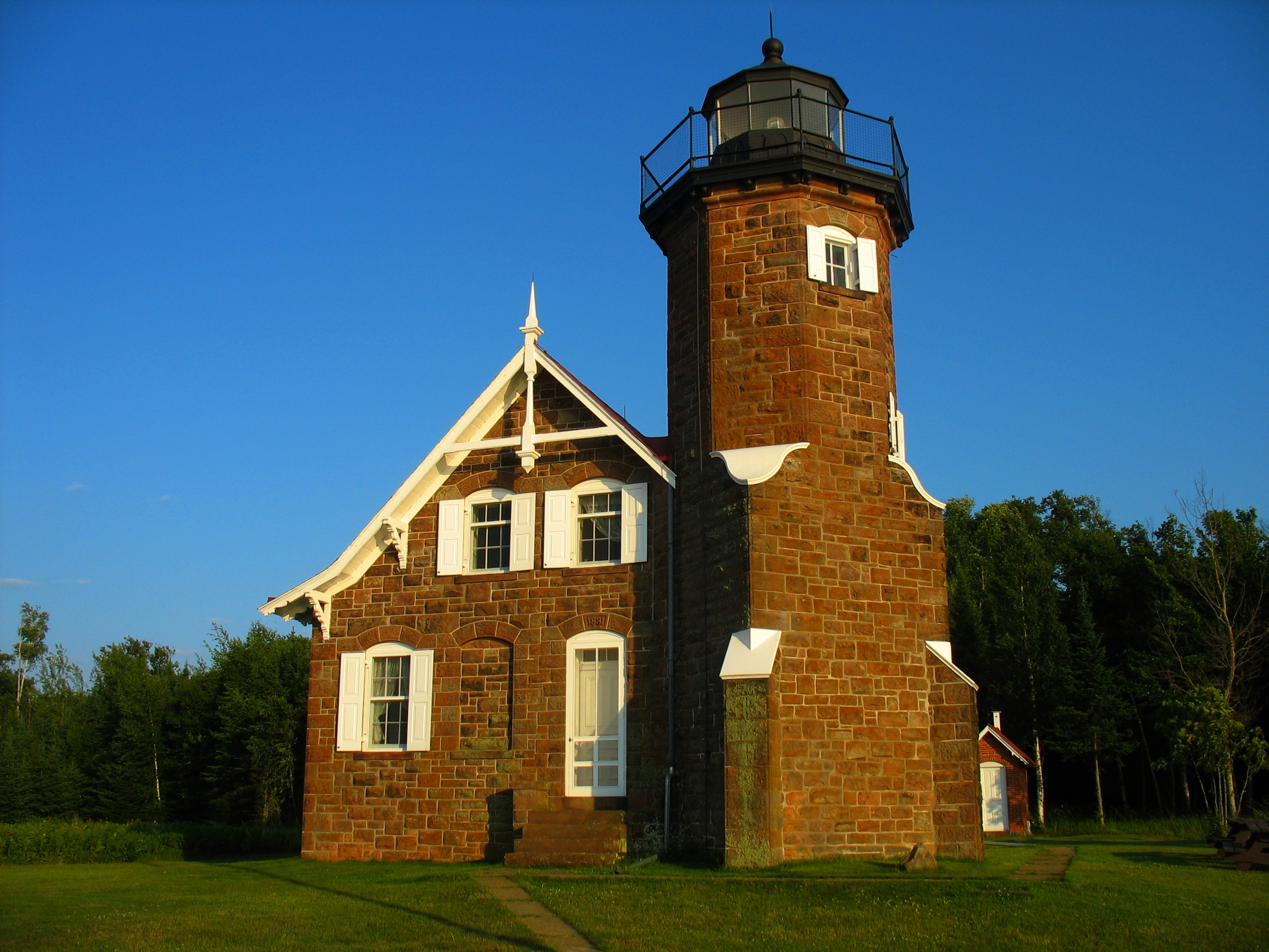 Apostle Islands Lighthouses